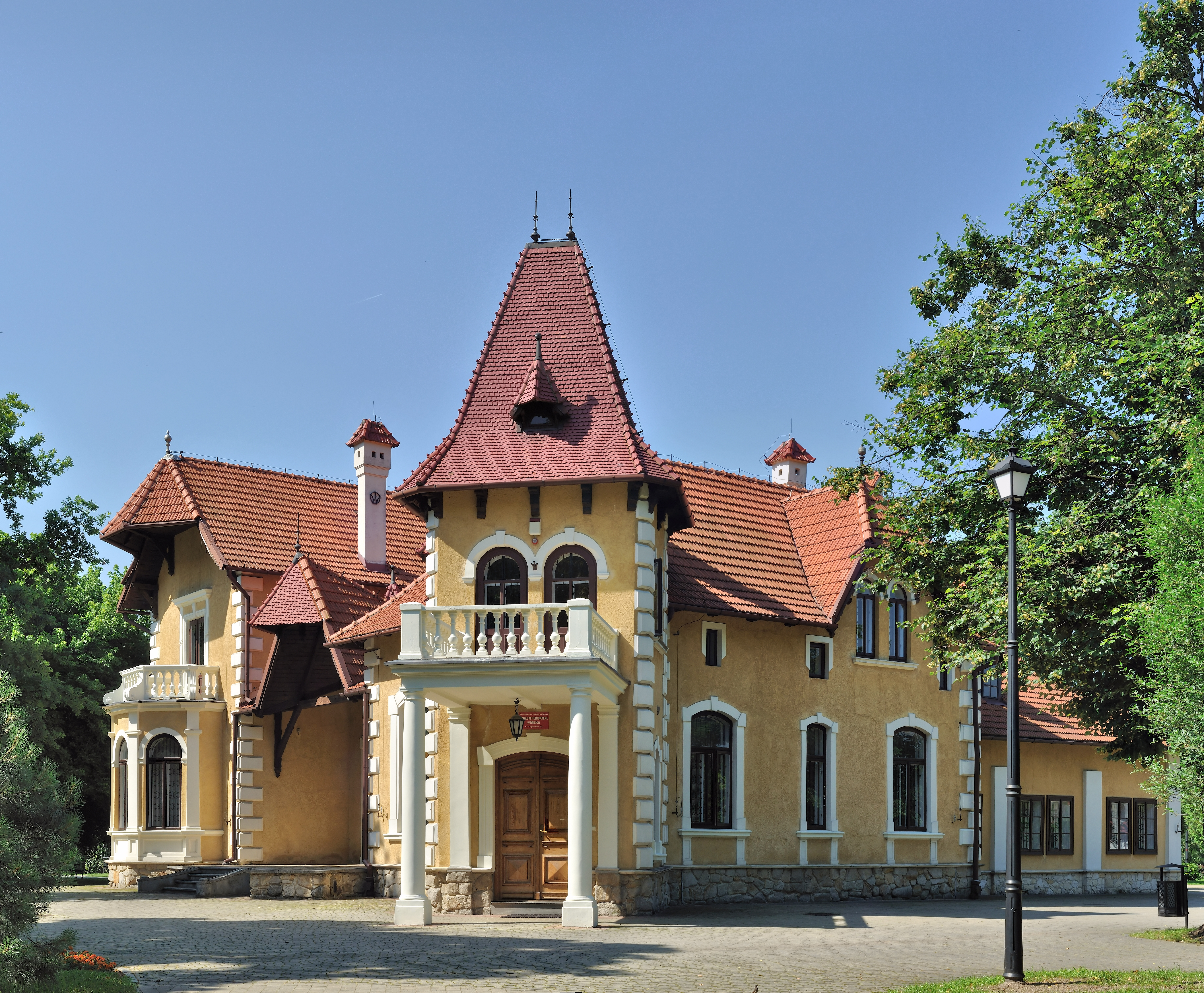 Manor house of family Oborski in Mielec, Poland